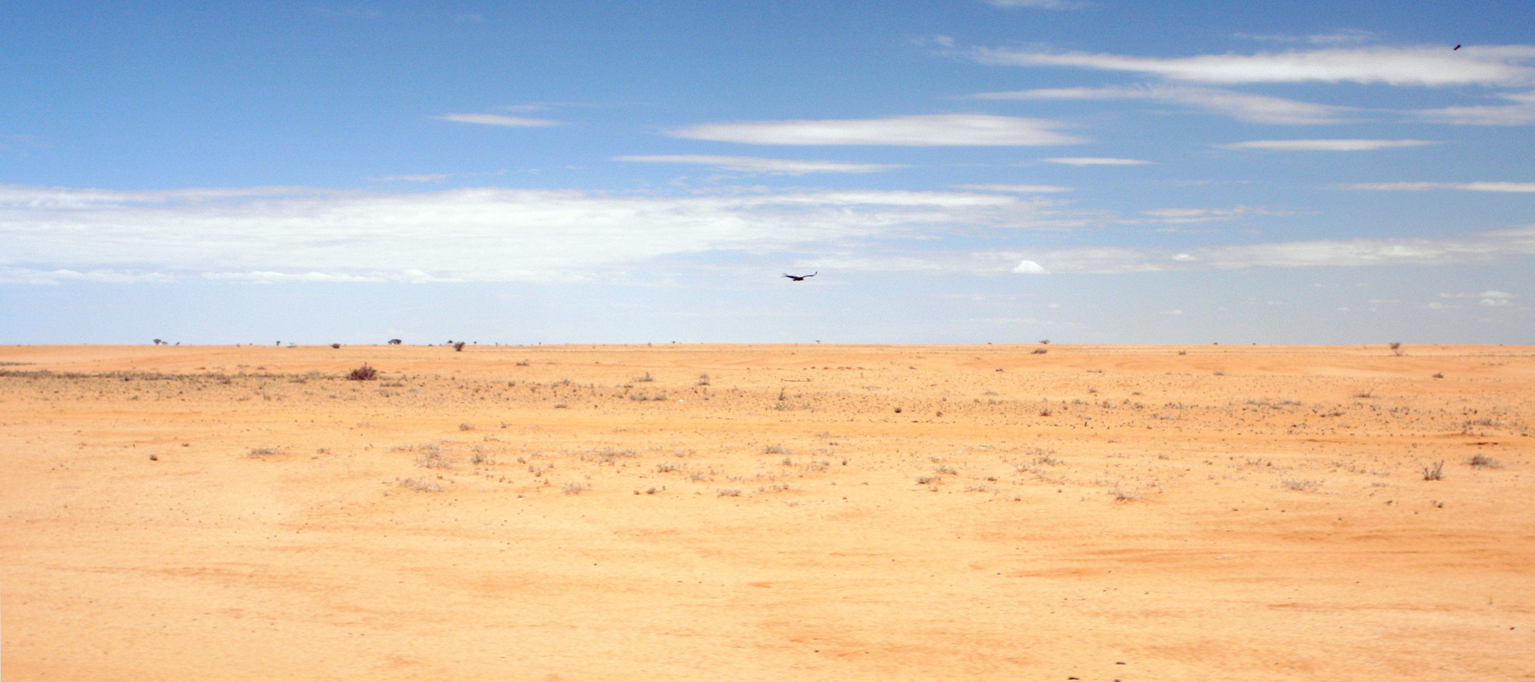 Solo bird Chalbi Desert Panorama, Marsabit County